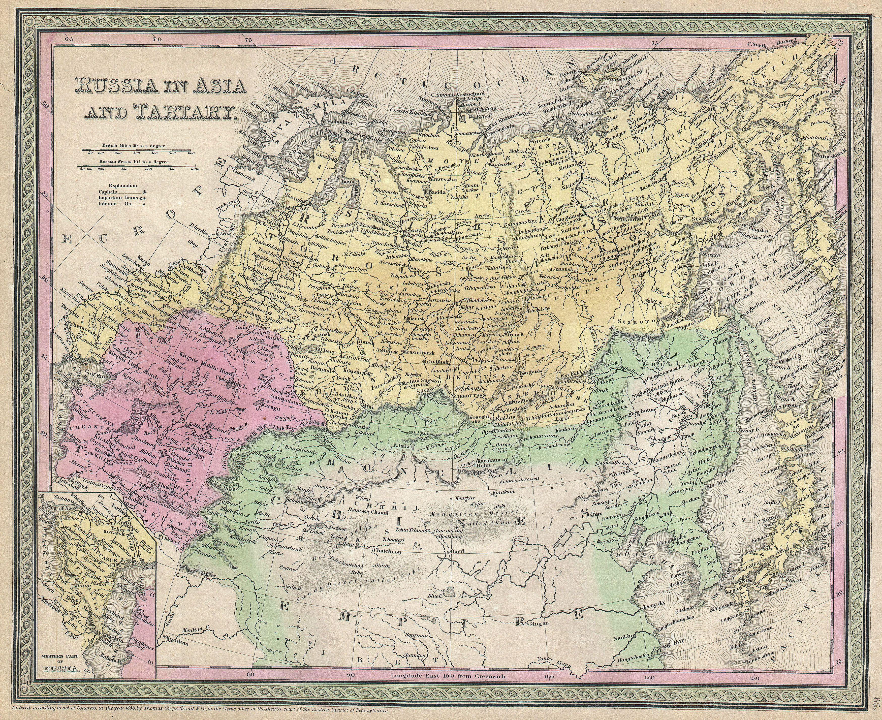 An extremely attractive example of S. A. Mitchell Sr.’s 1853 map of Russia in Asia. Extends from the Ural Mountains and the Caspian Sea eastward as far as Siberia, Kamtschatka and Japan. Extends south to include Korea, Mongolia, and much of northern China. An inset map in the lower left quadrant details the region between the Black Sea and the Caspian Sea, or as it is generally known, the Caucuses. Surrounded by the green border common to Mitchell maps from the 1850s. Prepared by S. A. Mitchell for issued as plate no. 65 in the 1853 edition of his New Universal Atlas . Dated and copyrighted, “Entered according to act of Congress, in the year 1850, by Thomas Cowperthwait & Co., in the Clerks office of the District court of the Eastern District of Pennsylvania.